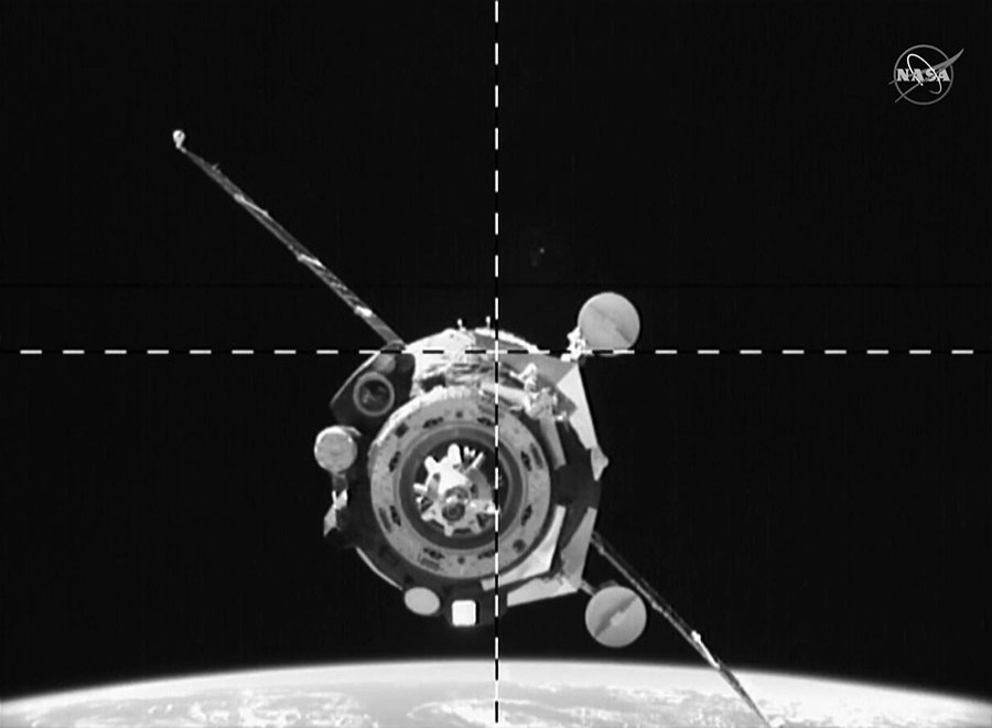 The camera on the rear port of the Zvezda service module captures the Soyuz MS-15 spacecraft approaching for a docking.